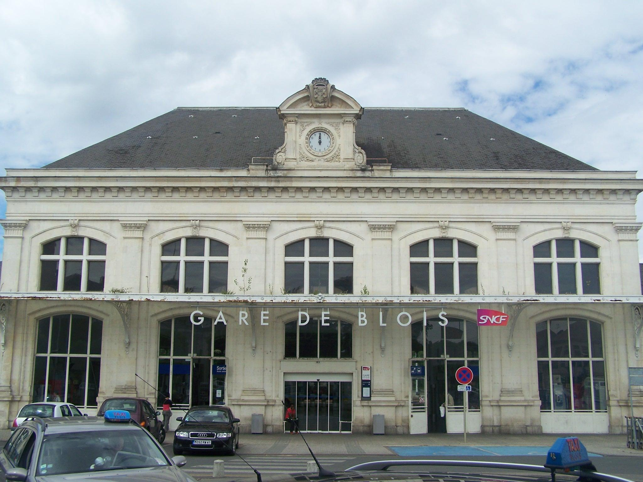 Front of the train station of Blois in the departement of Loir-et-Cher, France at noon.